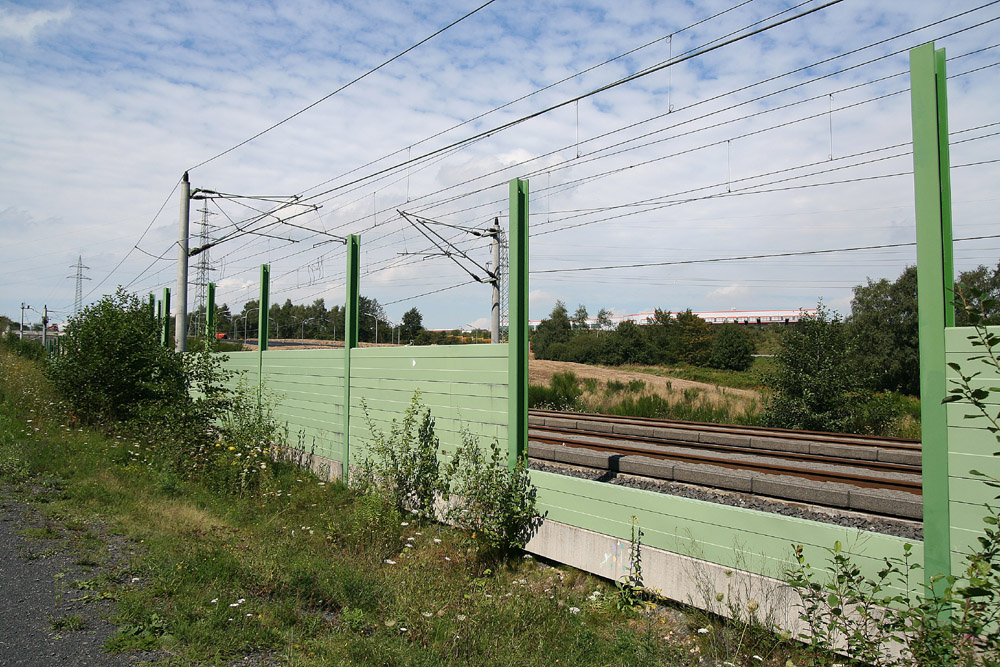 A demaged a partially dismantled noise barrier on the Cologne-Frankfurt high-speed rail line